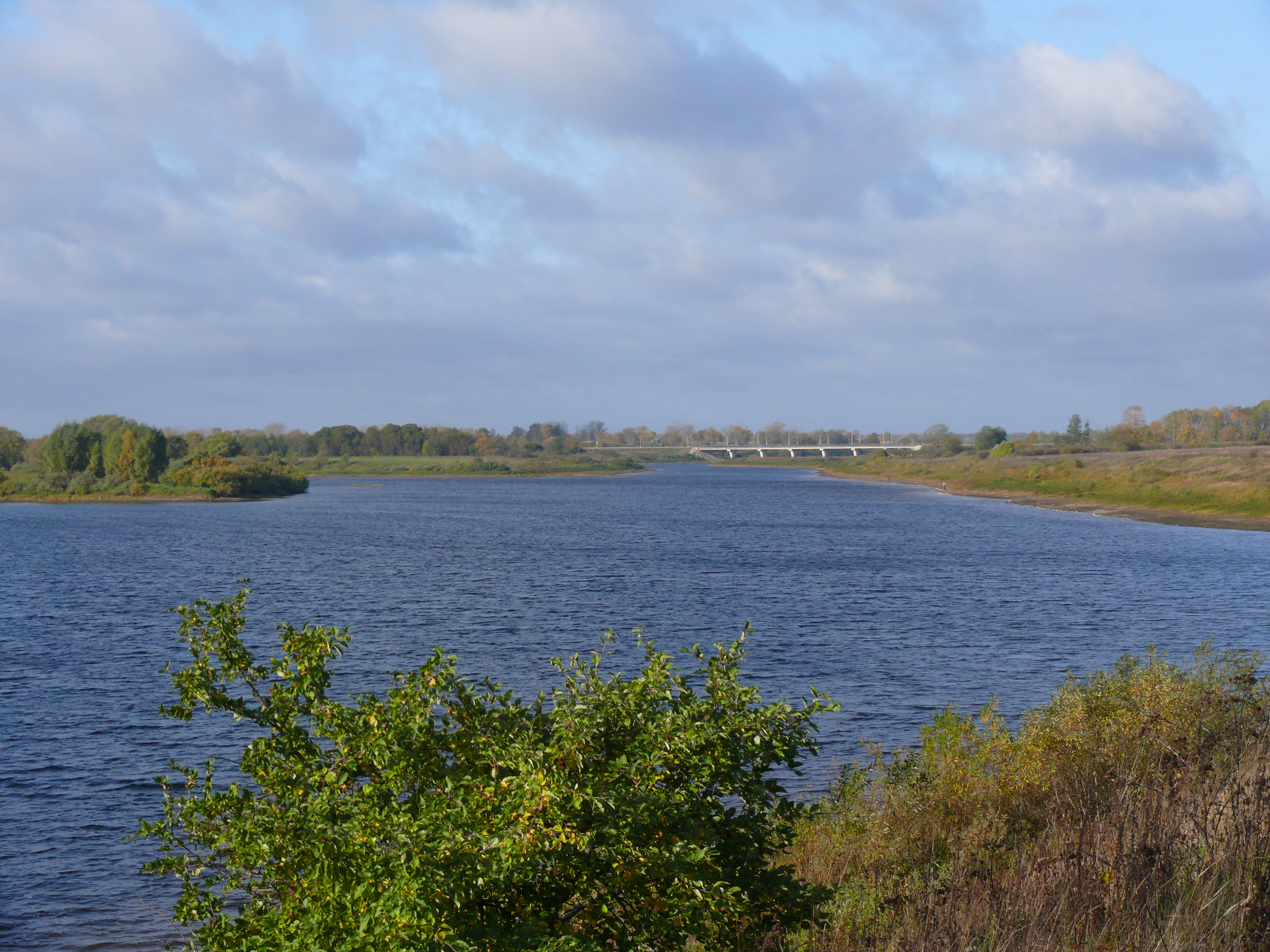 Shelon river in Bor village, Shimsky district, Novgorod oblast